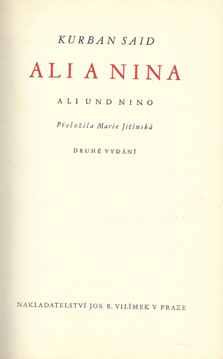 Ali and Nino, title page, Czech, 1939